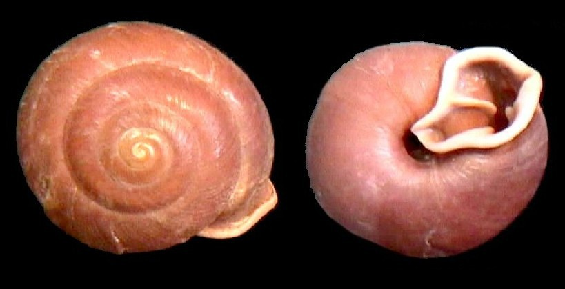 Labyrinthus plicatus / Lampadion plicatus